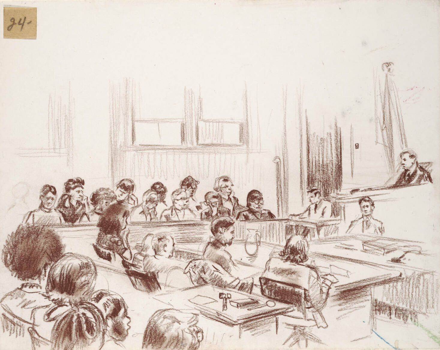 Author/Creator: Date: 1971. Part of: Robert Templeton Drawings and sketches related to the trial of Bobby Seale and Ericka Huggins, New Haven, Connecticut. Physical Description: 1 drawing ill., tan oil pastels 35.7 x 28.0 cm. Folder or box number: Box 4 Subjects: Black Panther Party. African American political activists. African Americans. Black militant organizations. Black power. Political activists. Trials (Conspiracy) Trials (Kidnapping) Trials (Murder) Connecticut. Superior Court (New Haven County) Genre/Form: Drawings Portraits Pastels (Visual works) Cite as: Yale Collection of American Literature, Beinecke Rare Book and Manuscript Library Repository: Beinecke Rare Book & Manuscript Library, Yale University Bibliographic Record Number: 2026734 Call Number: JWJ MSS 33 View our Record: Permalink Flickr data on 2011-08-26: License: CC BY-SA 2.0 User: Beinecke Library